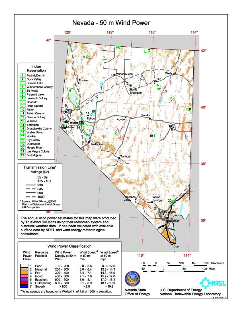 Average annual wind power distribution for Nevada, 50m height above ground, also showing location of existing electrical transmission lines